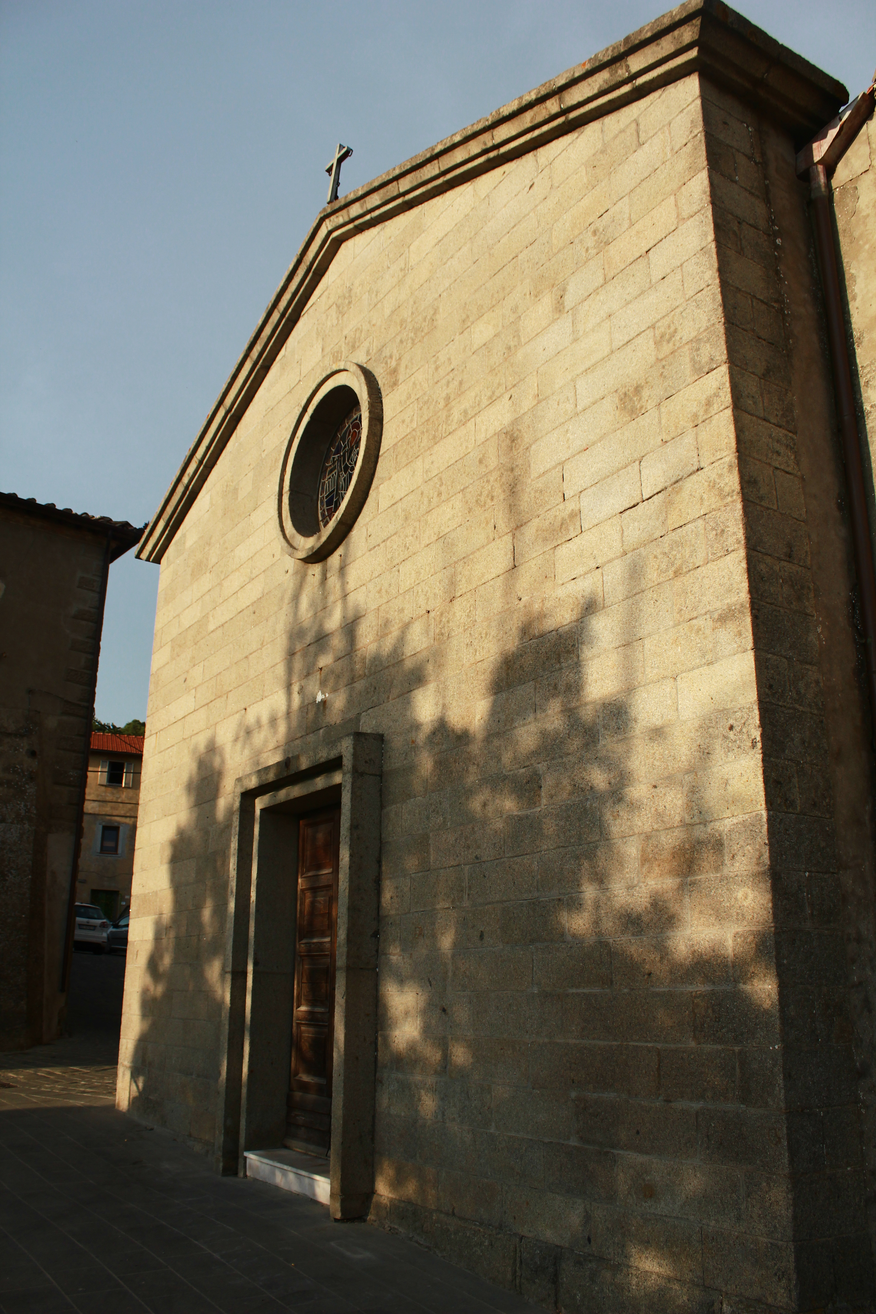 Church of San Giovanni Battista in Stribugliano, Tuscany